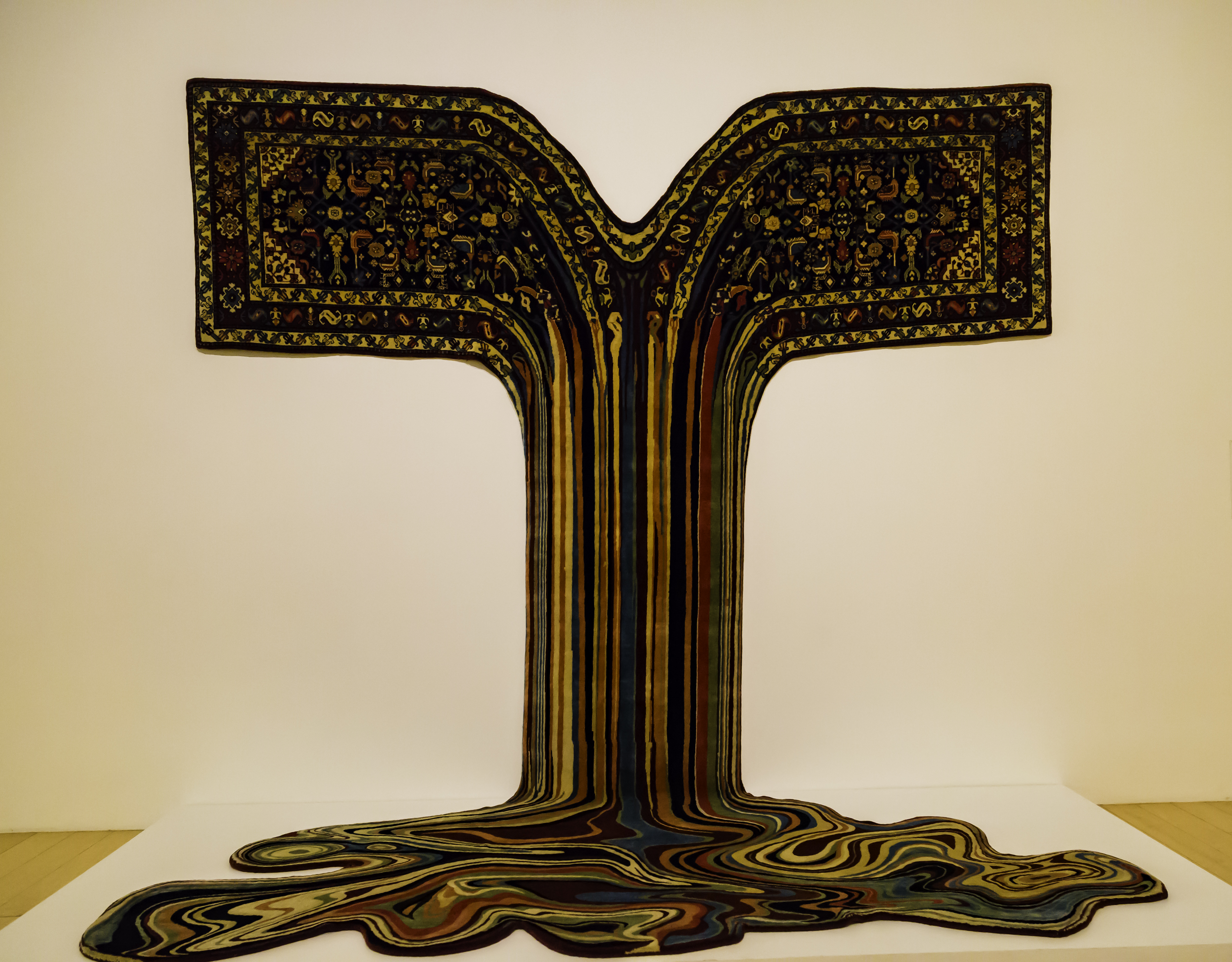 Osho (2015) by Azerbaijani artist Faig Ahmed